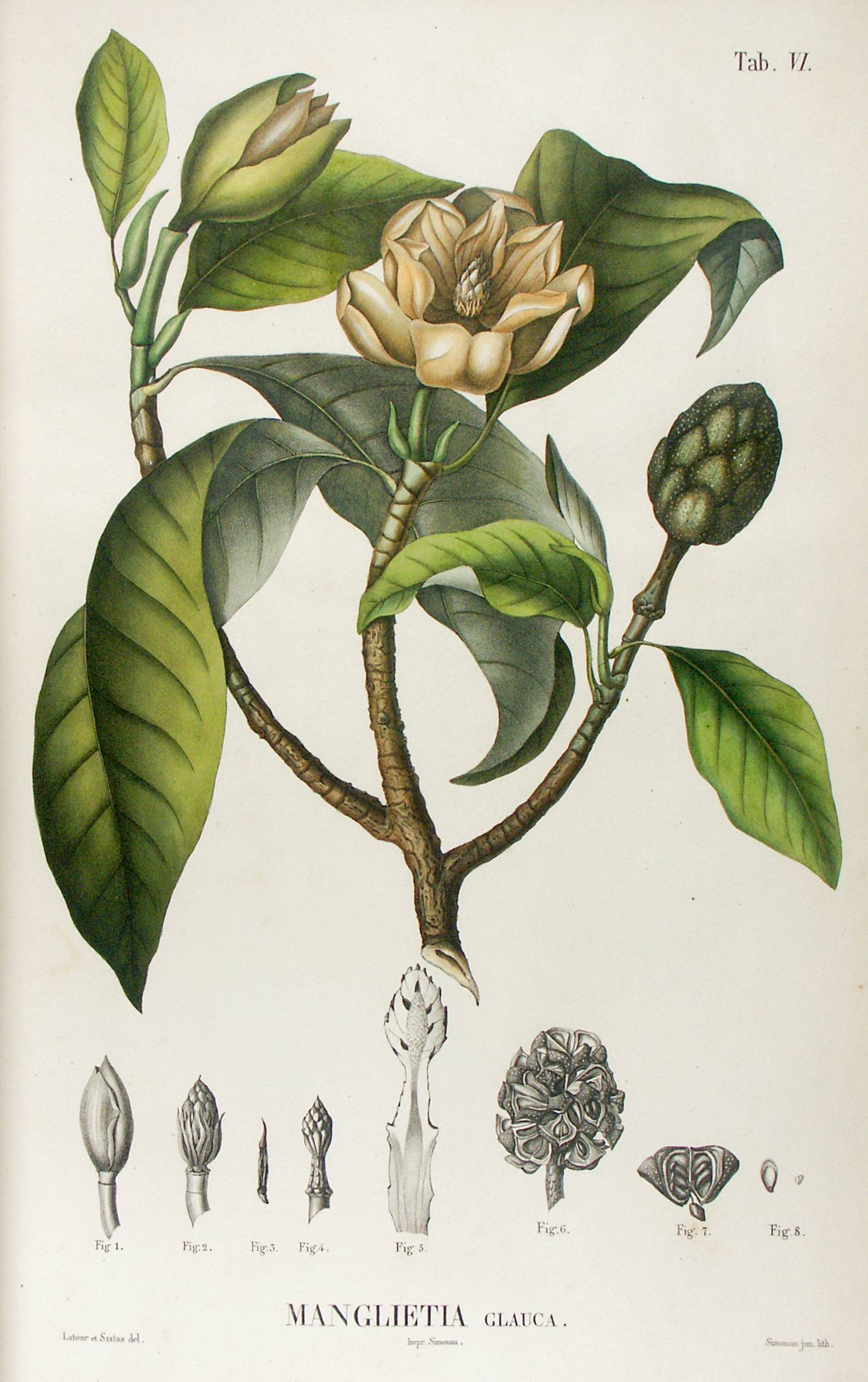 Lithographed, hand-coloured image of Manglietia glauca Blume, the type species of genus Manglietia. Plate VI in C.L. Blume, Flora Javae, pars 19-20 Magnoliaceae (1829).